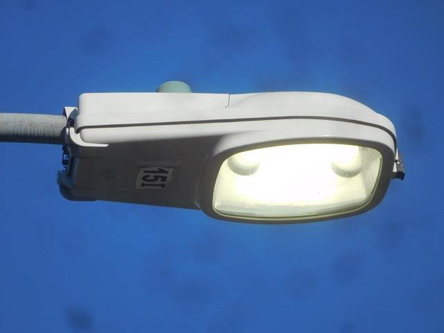 History of street lighting